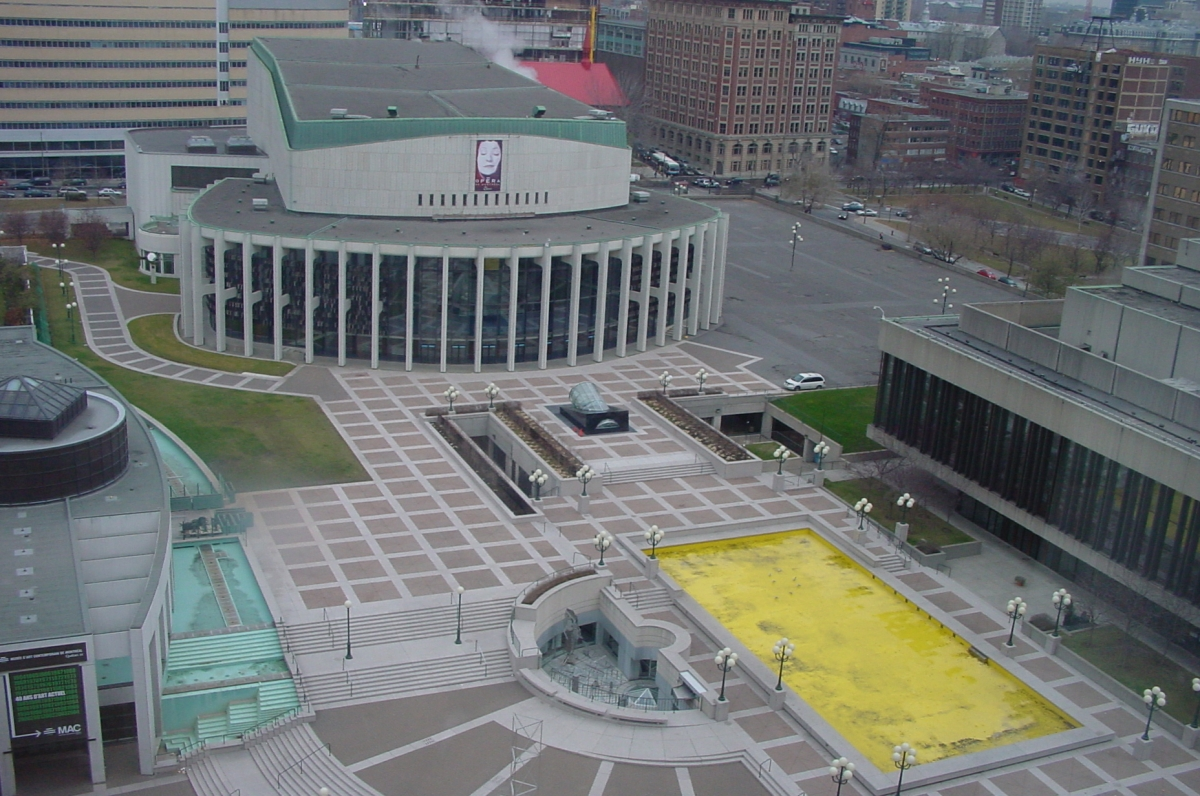 Place des Arts of Montreal and its esplanade (terrace).